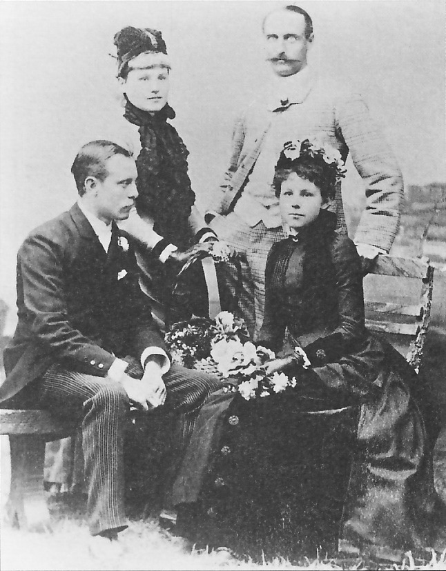 front right: Maud Watson, first female Tennis champion at Wimbledon 1884 front left: Ernest Renshaw, Wimbledon singles Tennis champion 1888 back right: Herbert Fortescue Lawford, Wimbledon singles Tennis champion 1887 back left: Lilian Watson, sister of Maud, Runners-up in the Wimbledon final 1884 Picture was taken during the Irish Championships 1884 at Fitzwilliam Club, Dublin.